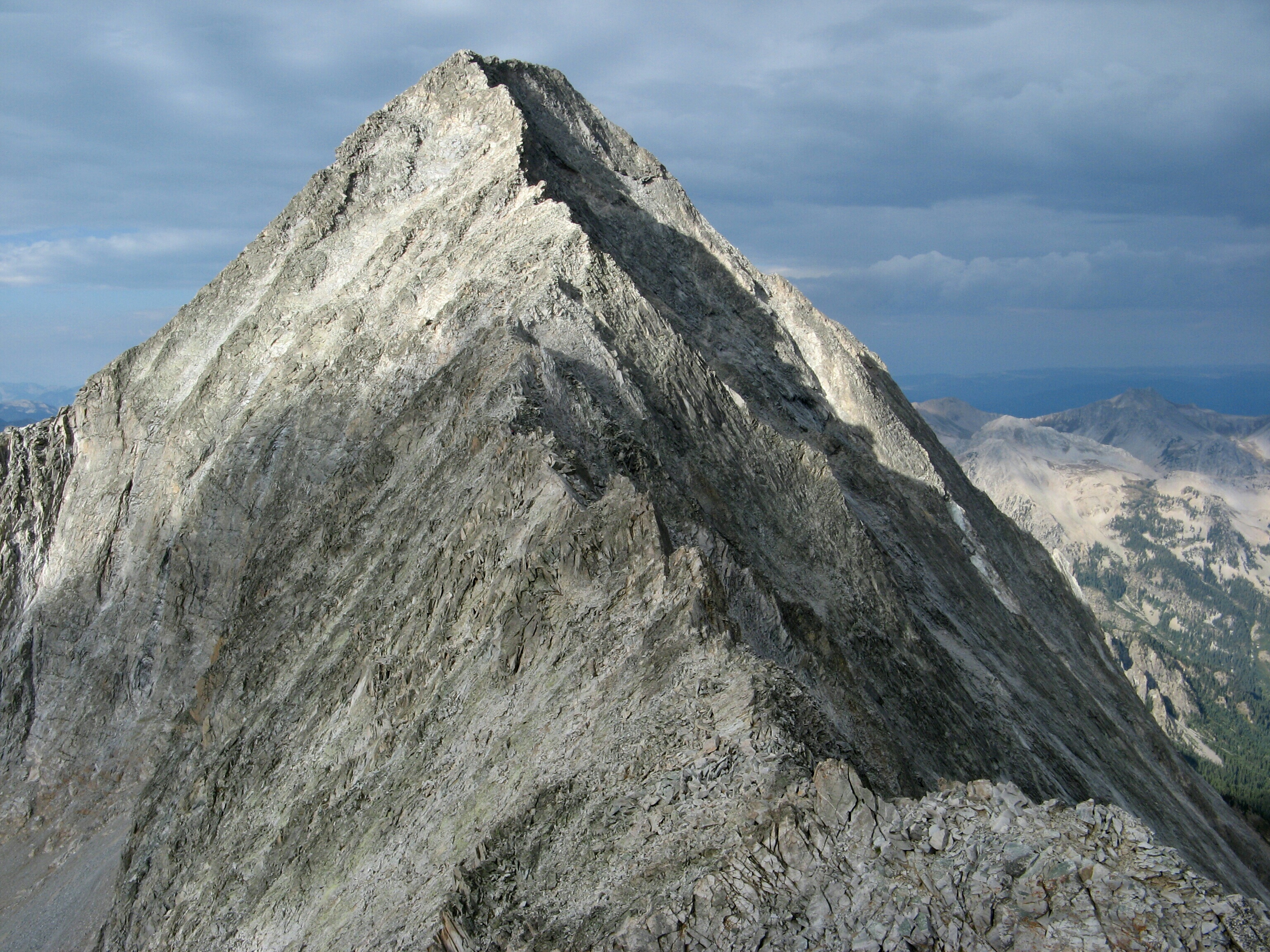 Northeast ridge of Capitol Peak in Colorado, United States